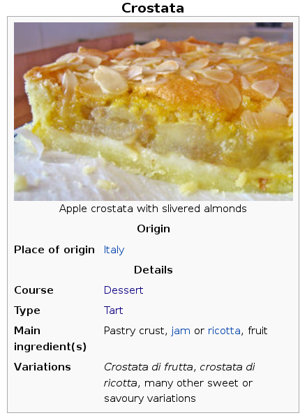 The infobox of the article crostata on the English Wikipedia on 2013 June 7.